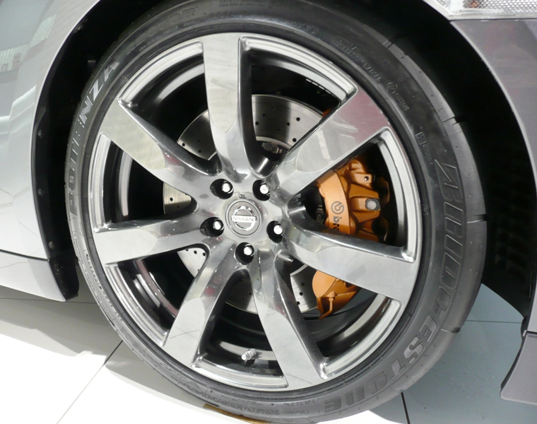 Nissan GT-R wheel.